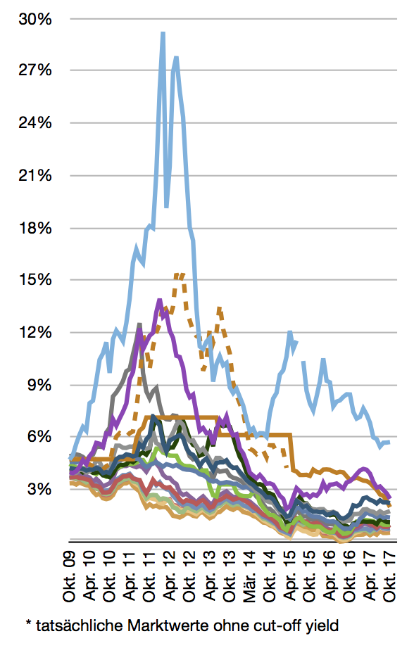 Long-term interest rate statistics for EUROZONE Member States (2009-2013). (percentages per annum; period averages; secondary market yields of government bonds with maturities of close to ten years)